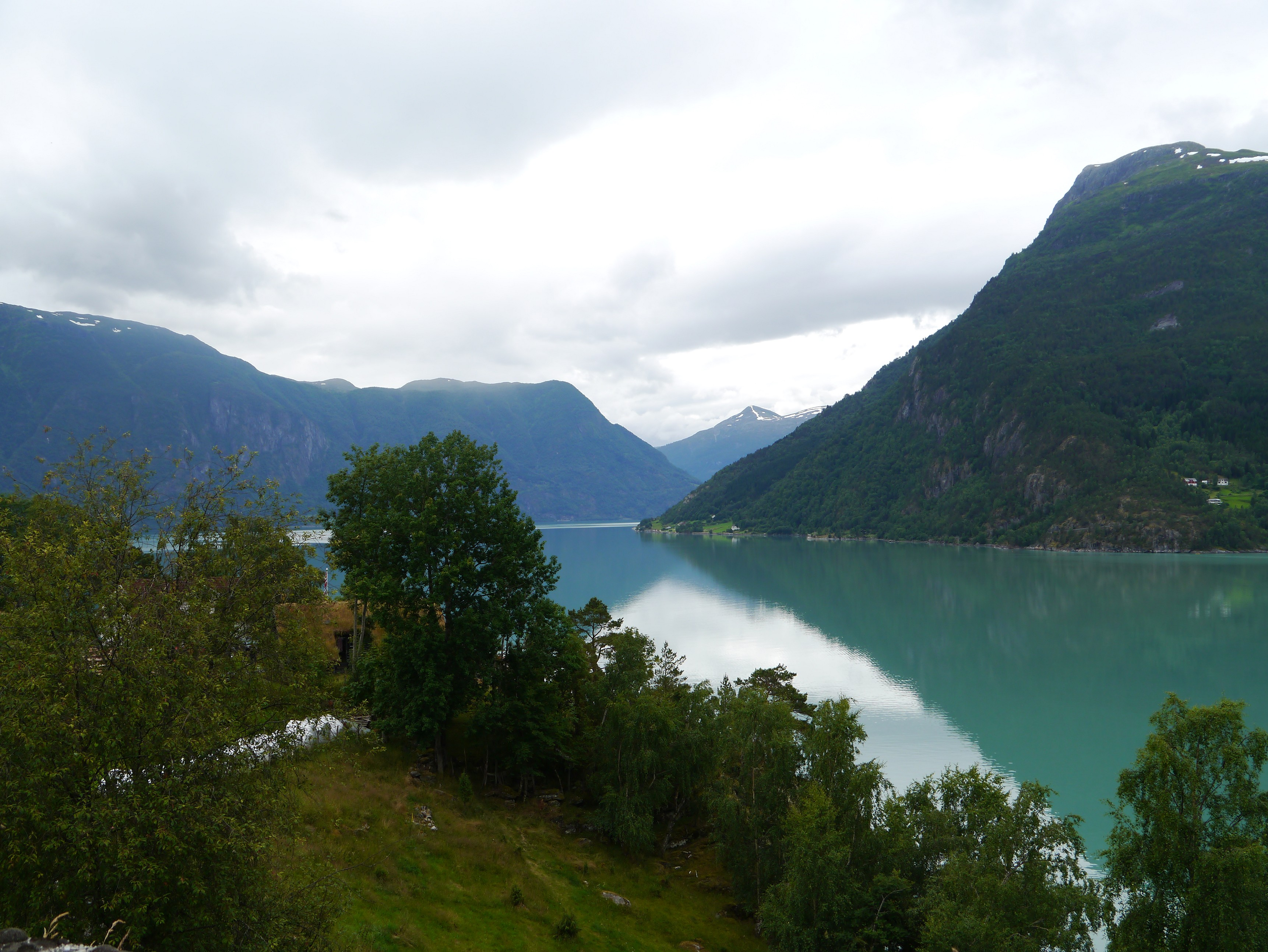 along the Sognefjorden, Sogn og Fjordane County, Western Norway